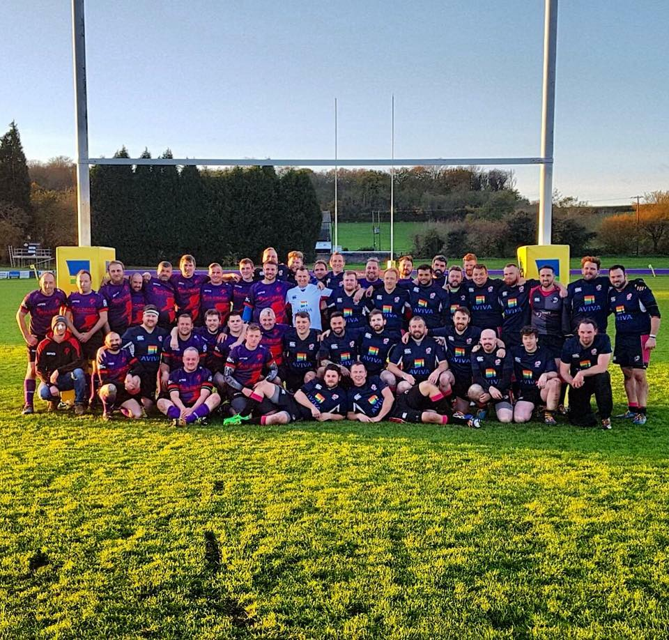 The Bristol Bisons RFC vs Northampton Outlaws.